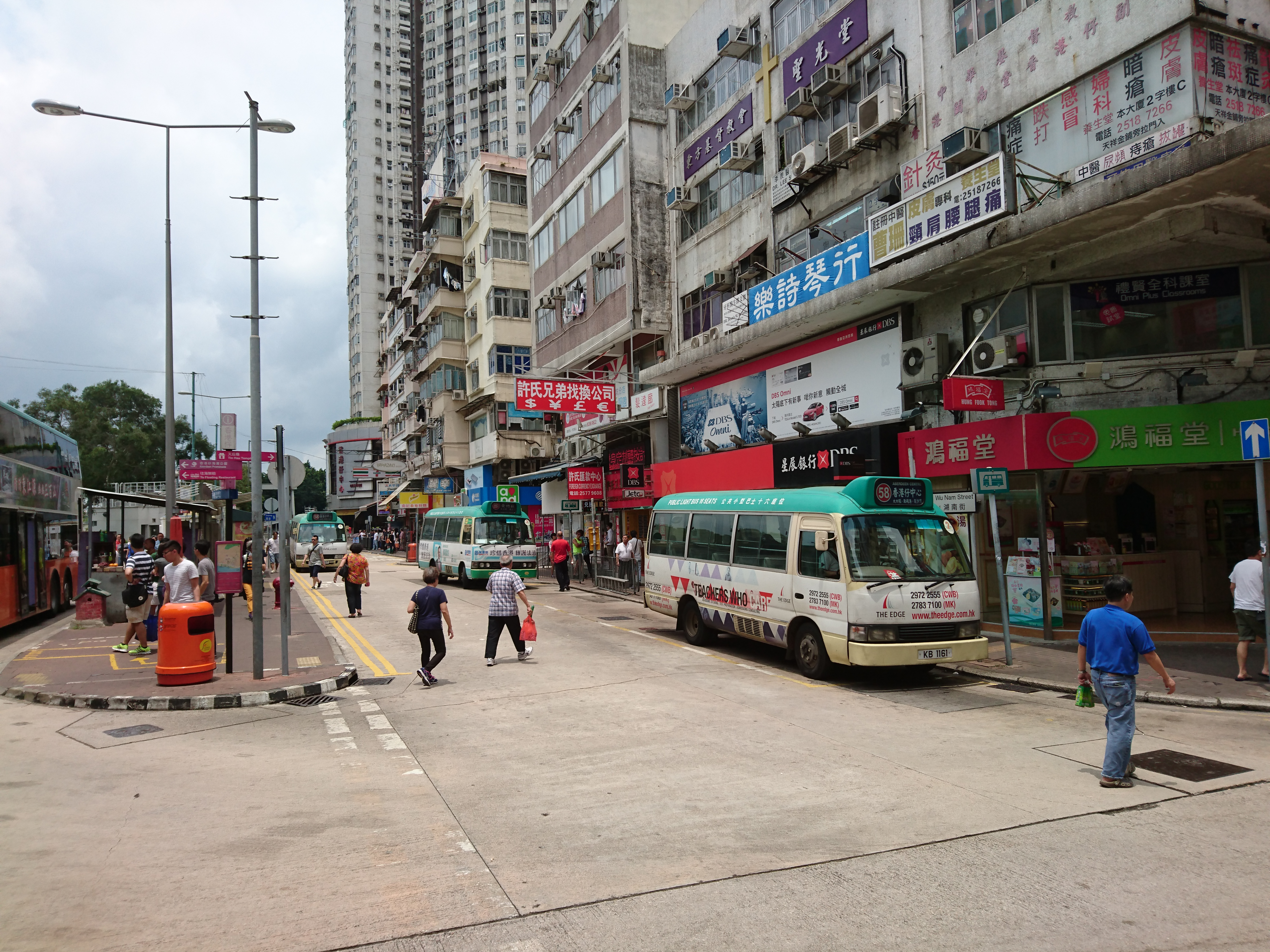 Wu Nam Street towards West